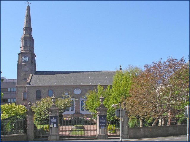 St. Andrew's Church Completed in 1772 by Architect, Samuel Bell. This grand, yet simple rectangular church has fine stone dressings, twin Venetian and semi-circular windows. With a splendid west tower, the steeple recesses at each higher level creating an extremely elegant profile.